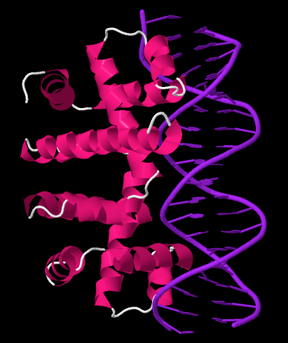 3D molecular view of E.coli trpR dimer bound to operator DNA. Generated from PDB 1TRO viewd in Jmol.